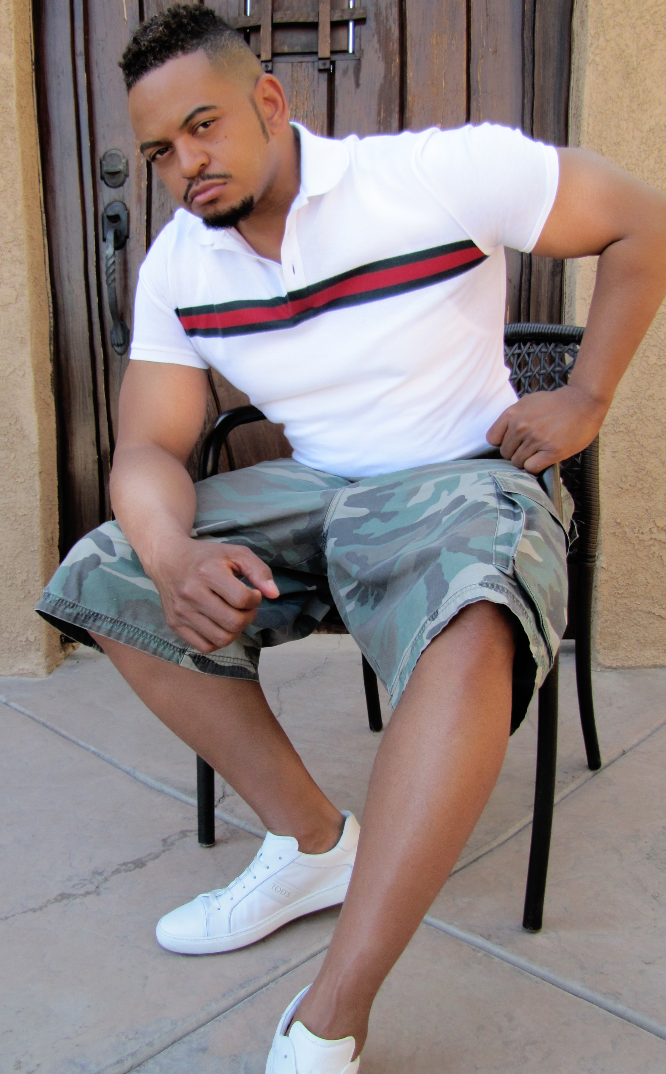 Christopher B. Stokes in 2014